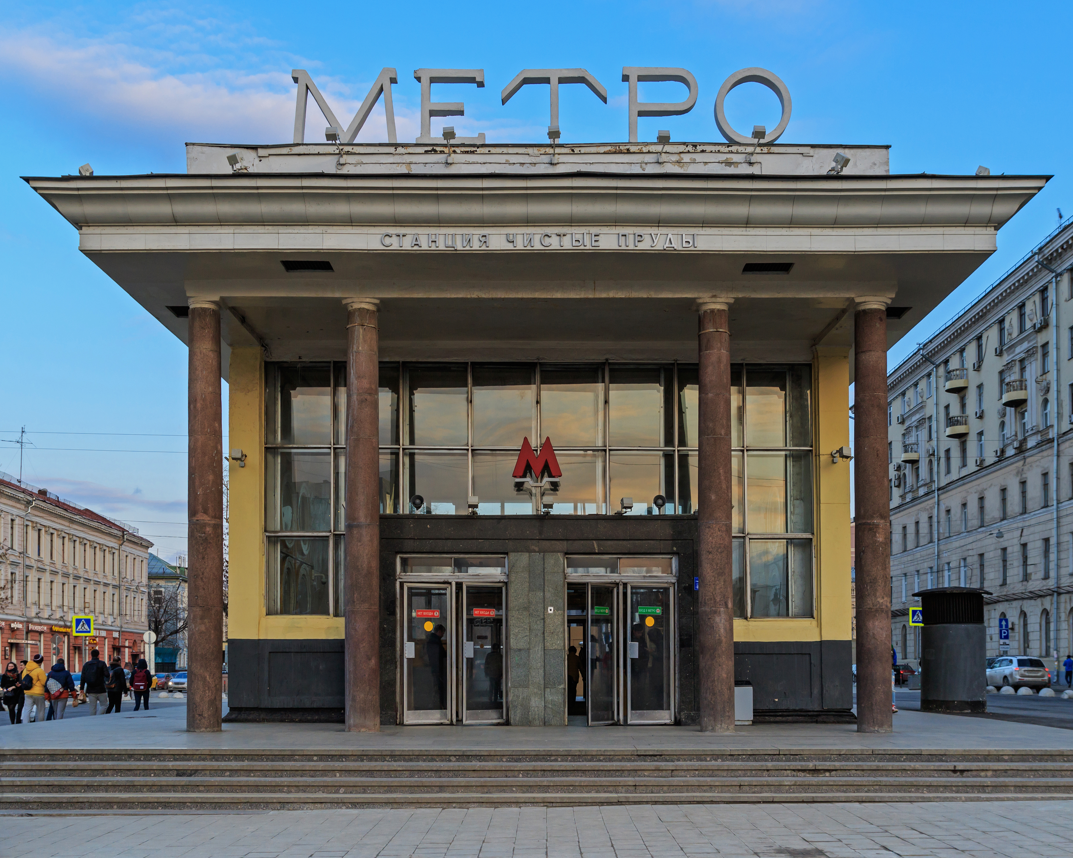 Entrance pavilion of Chistye Prudy metro station. Moscow, Russia.